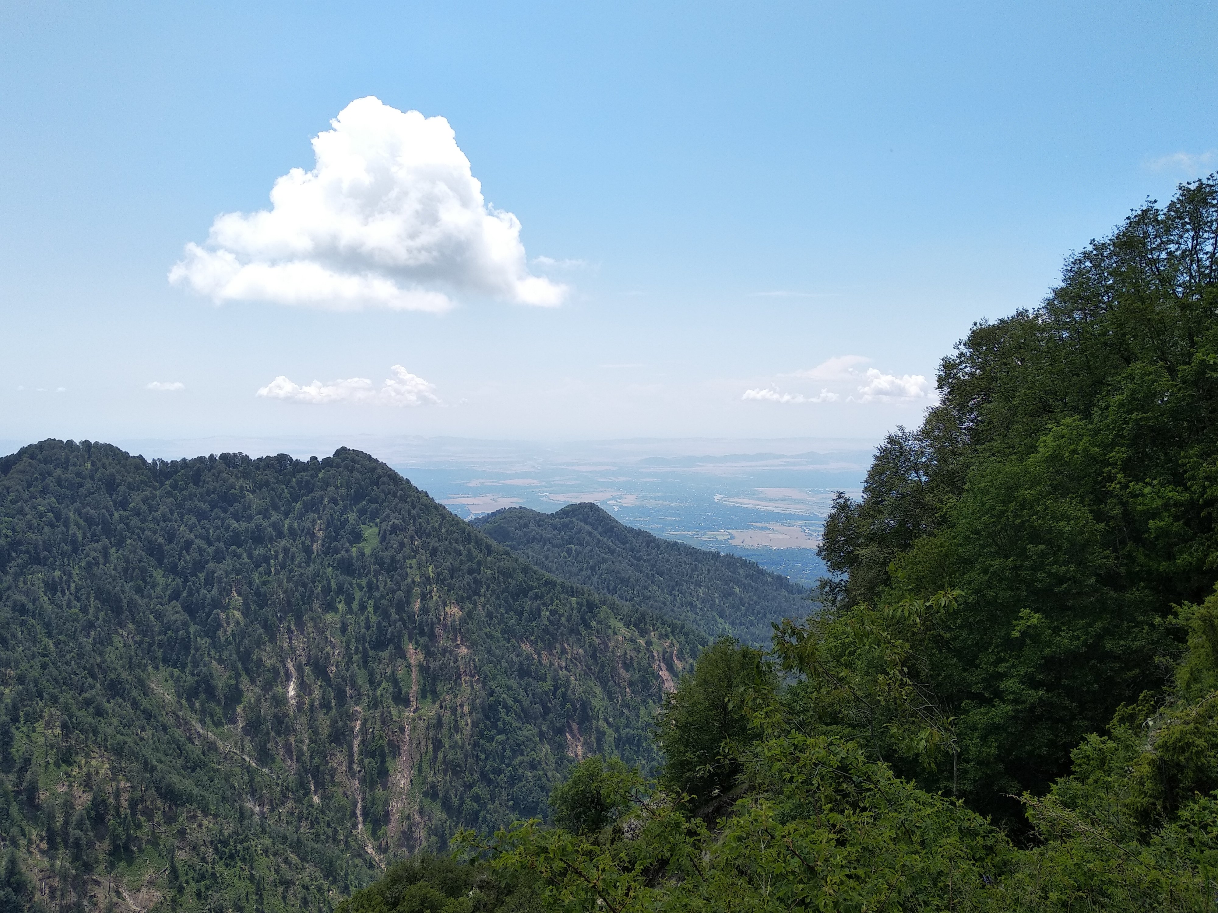 Nature of Qabala